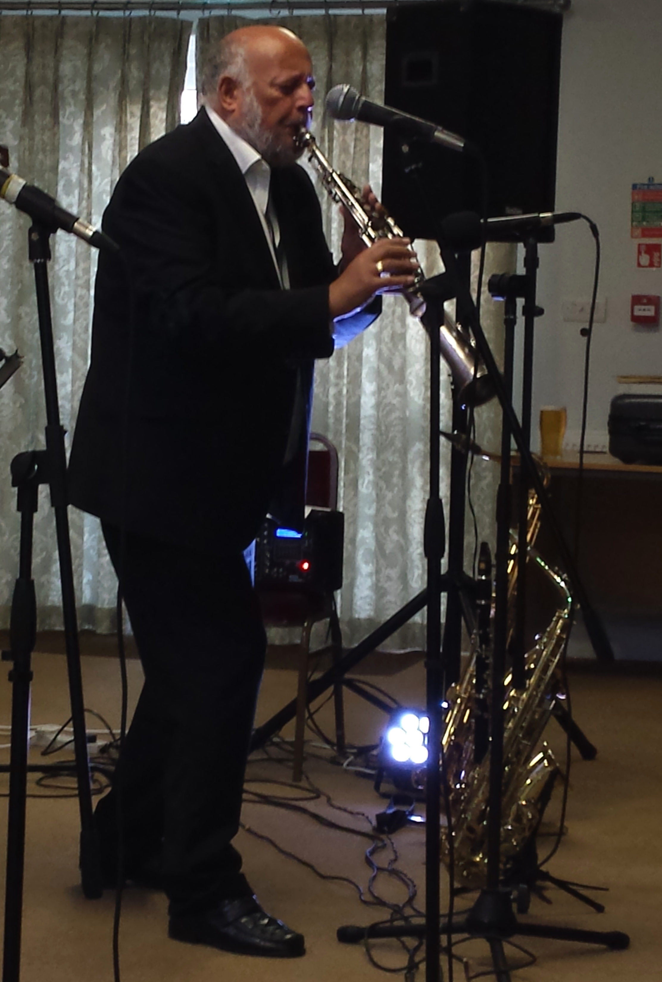 Pete Allen playing jazz clarinet